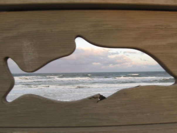 Photo of beach in Marineland